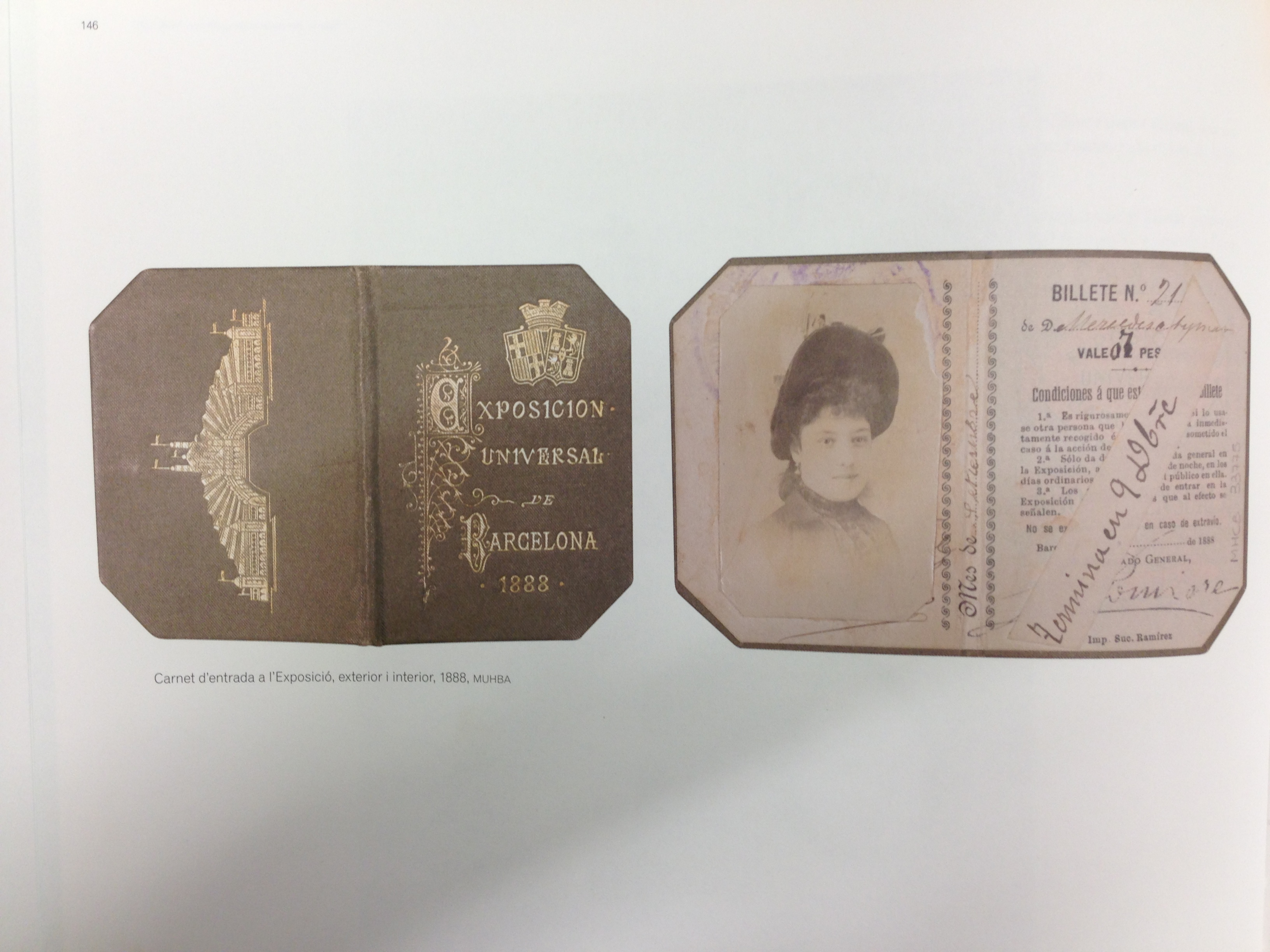 Employee photo ID card from the Universal Exposition of Barcelona in 1888, probably made by Rafael Areñas Miret (from LÓPEZ GUALLAR, Marina (ed.), Cerdà and Barcelona: the first metropolis, 1853-1897. Barcelona: Barcelona City Council, Museum of History of Barcelona, ​​2010.)